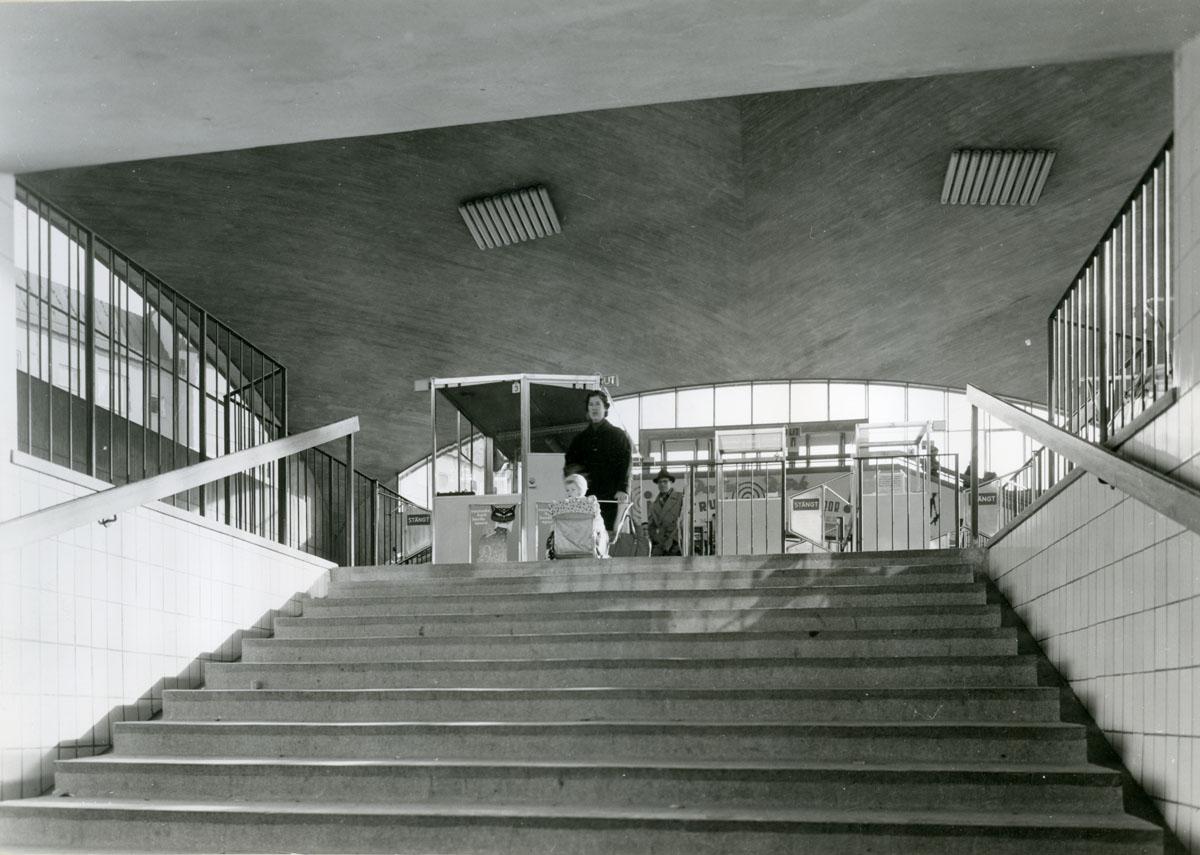 Kvinna med barnvagn i rulltrappan i Blackebergs tunnelbanestation Photograph by: unknown Photo Nr: 2118-8